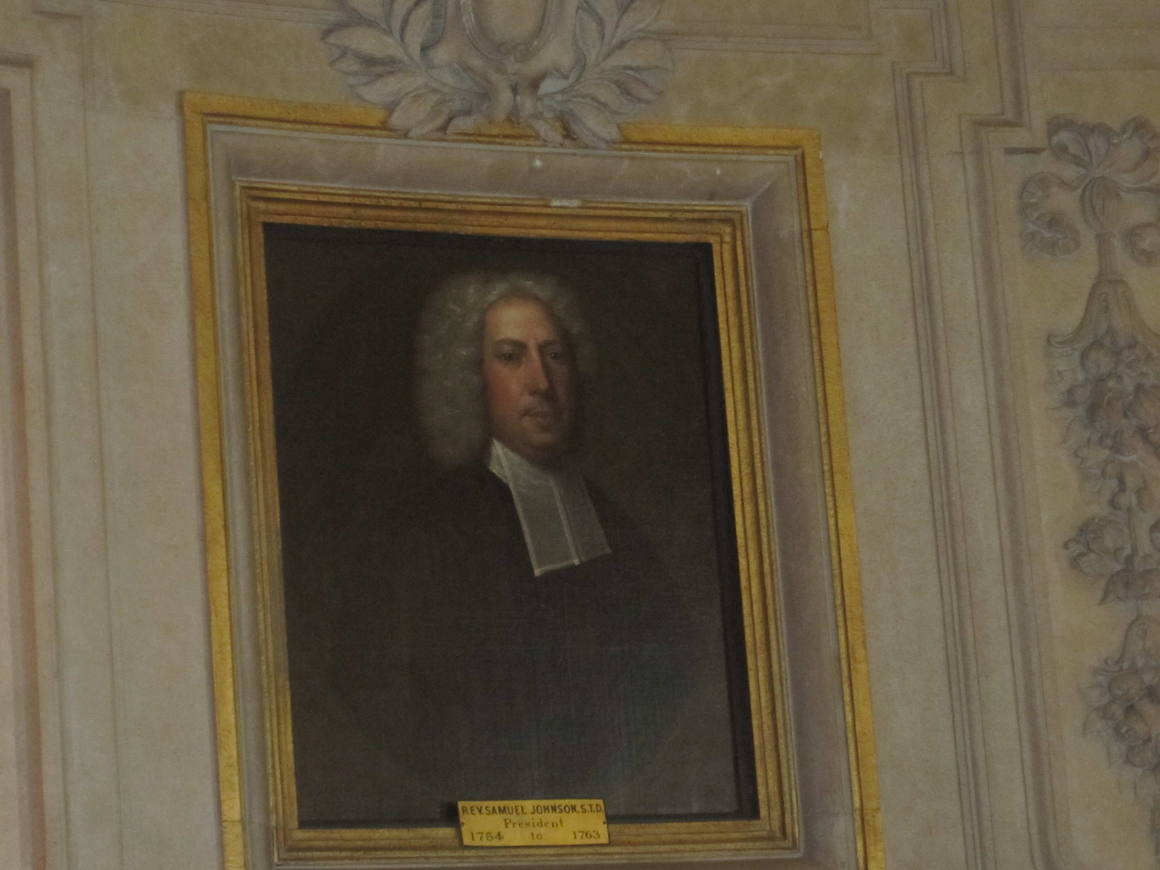 Photo of Rev. Samuel Johnson of Columbia University, NYC